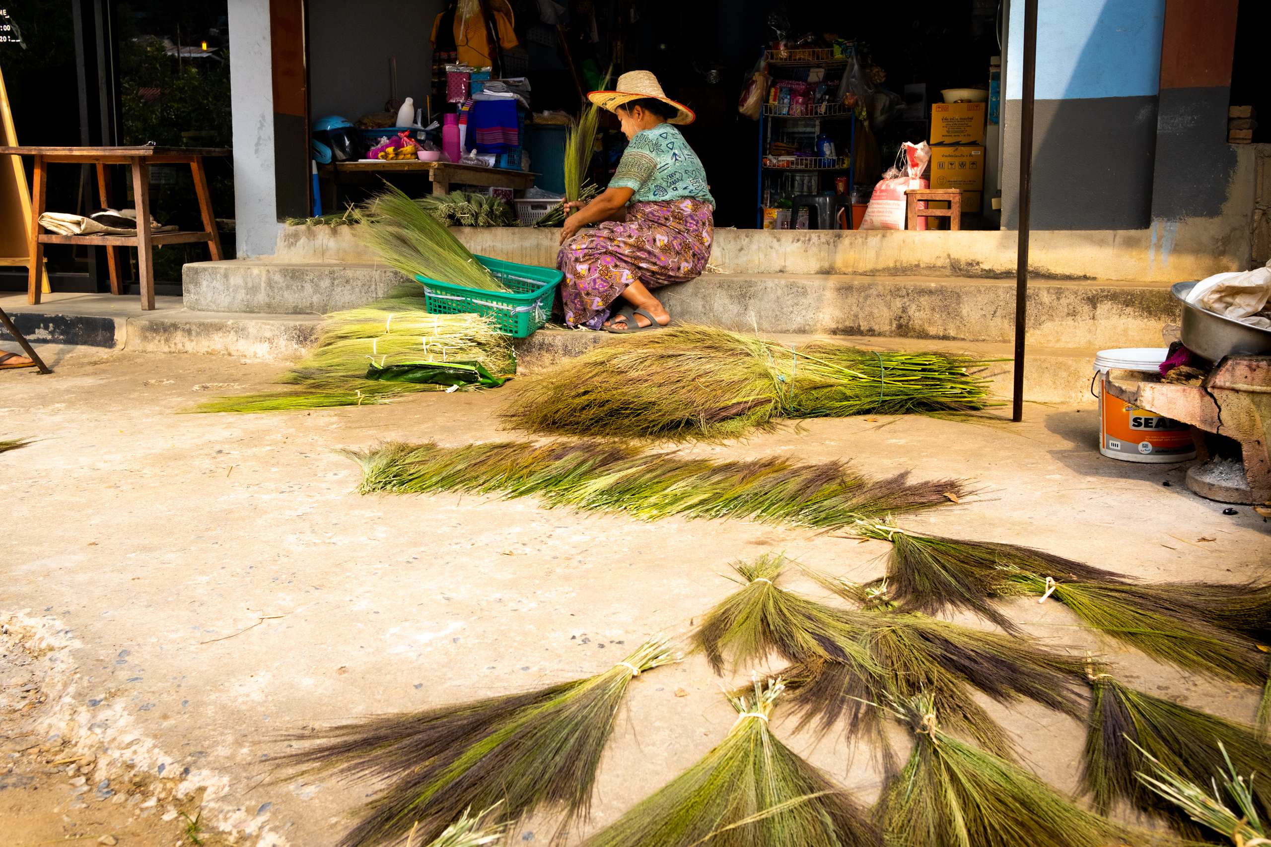 A Shan lady in Thoet Thai preparing dried flowers of the broom grass for making brooms